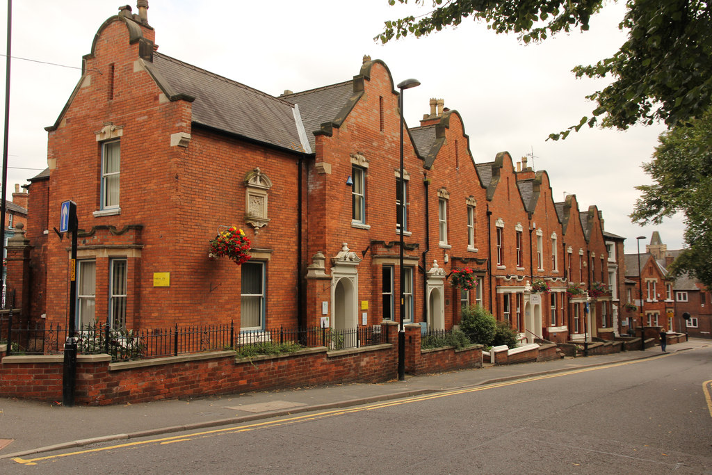 Beaumont Fee